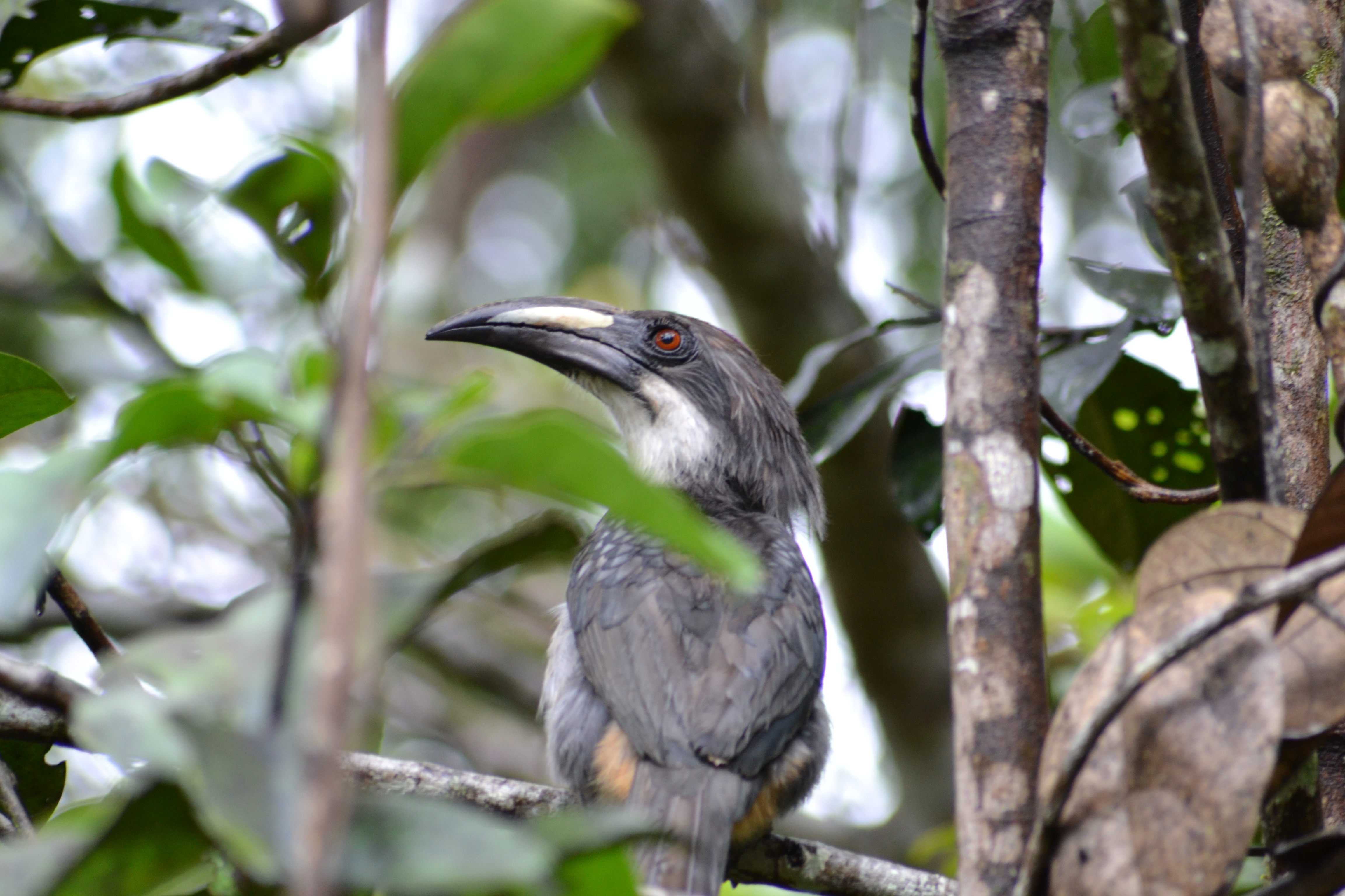 Sri Lanka Grey Hornbill in Sinharaja Rainforest